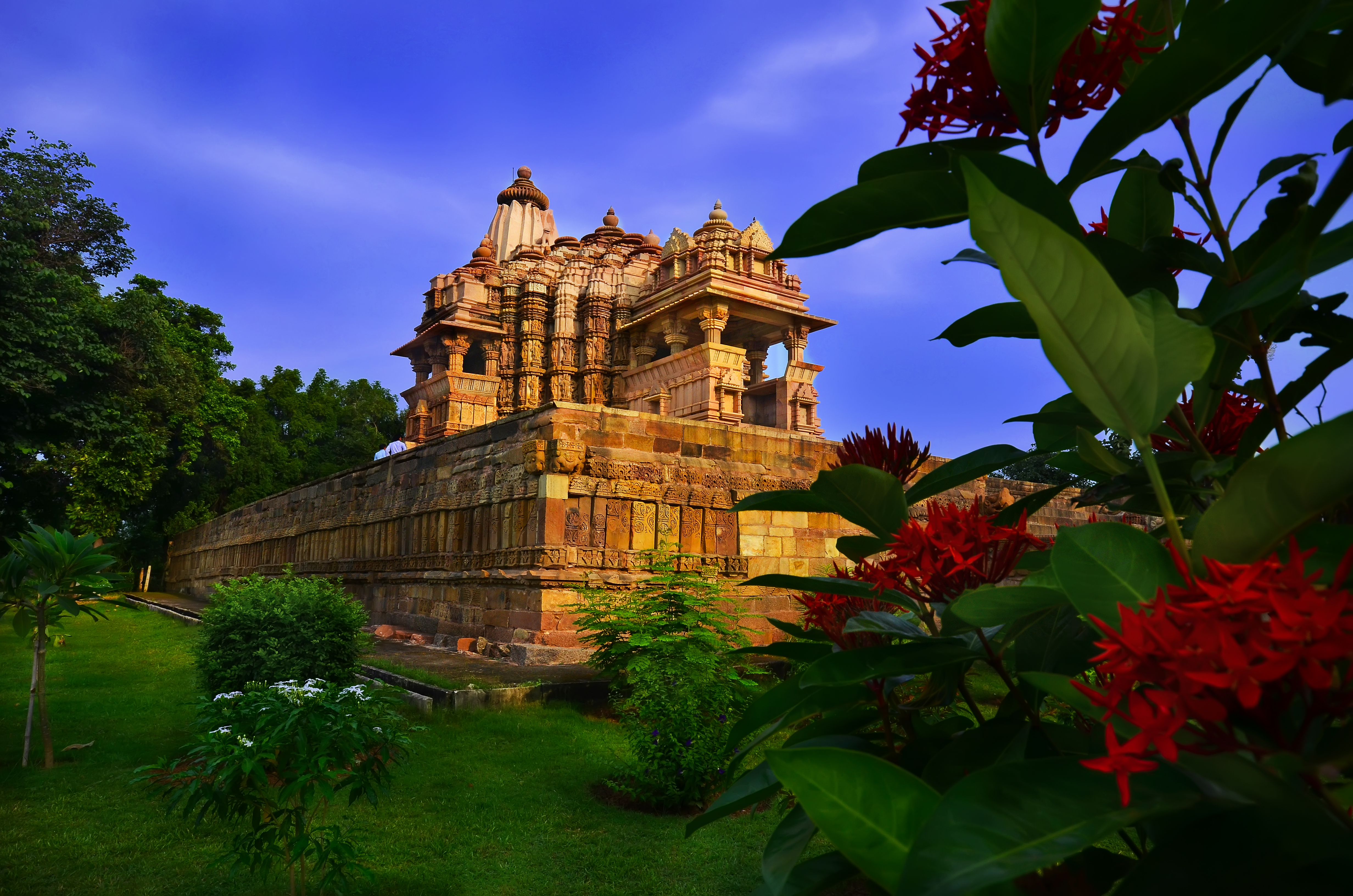 Devi Jagdambi Temple (Temple of the goddess Jagdamba)